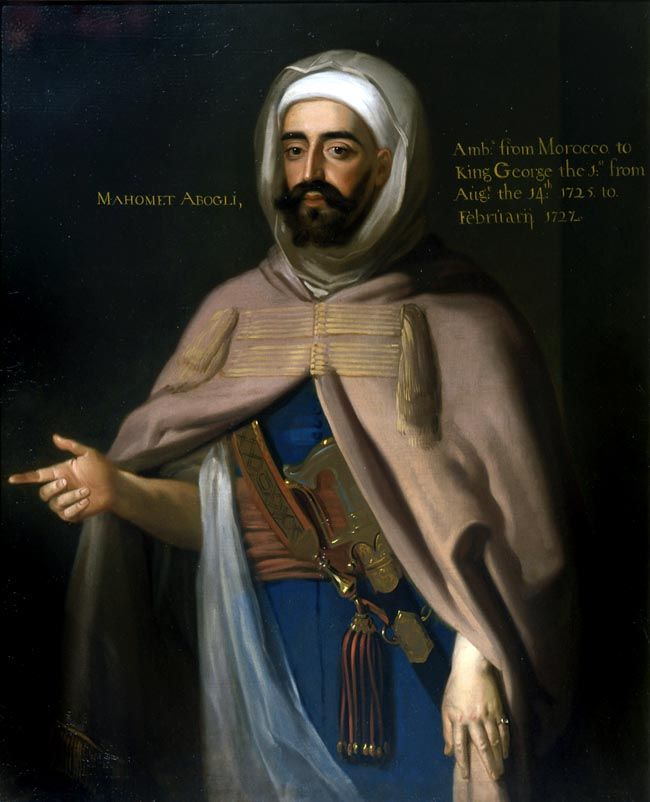 Moroccan_Ambassador_Abghali_1725